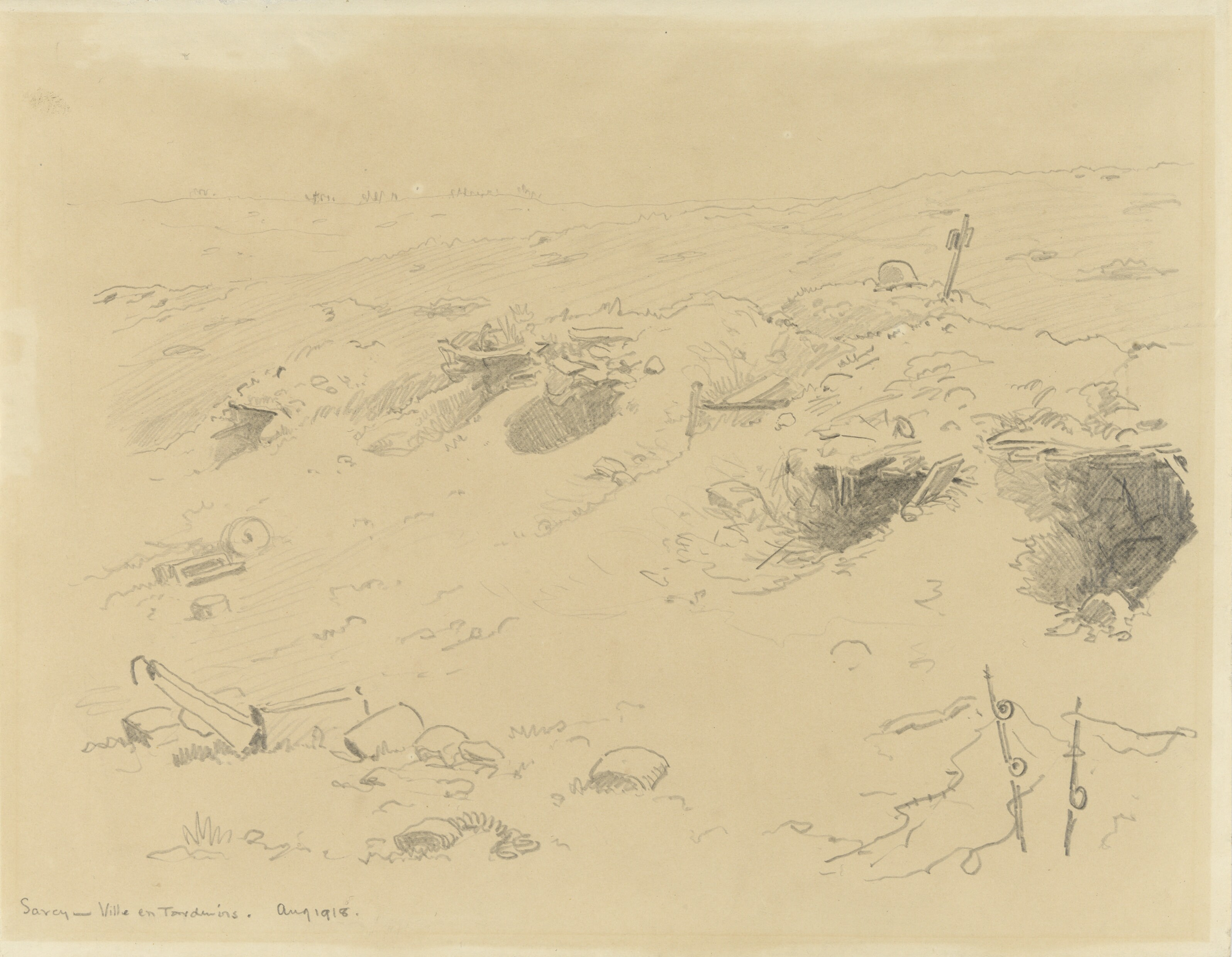 Sarcy, Ville-en-tardenois, August, 1918 image: a view across a Western Front battlefield, with dark entrances to abandoned dug-outs and foxholes dug into the side of a slight ridge. Just beyond this is a grave marked with a wooden cross and soldier's helmet. There are a few bits of debris in the foreground.